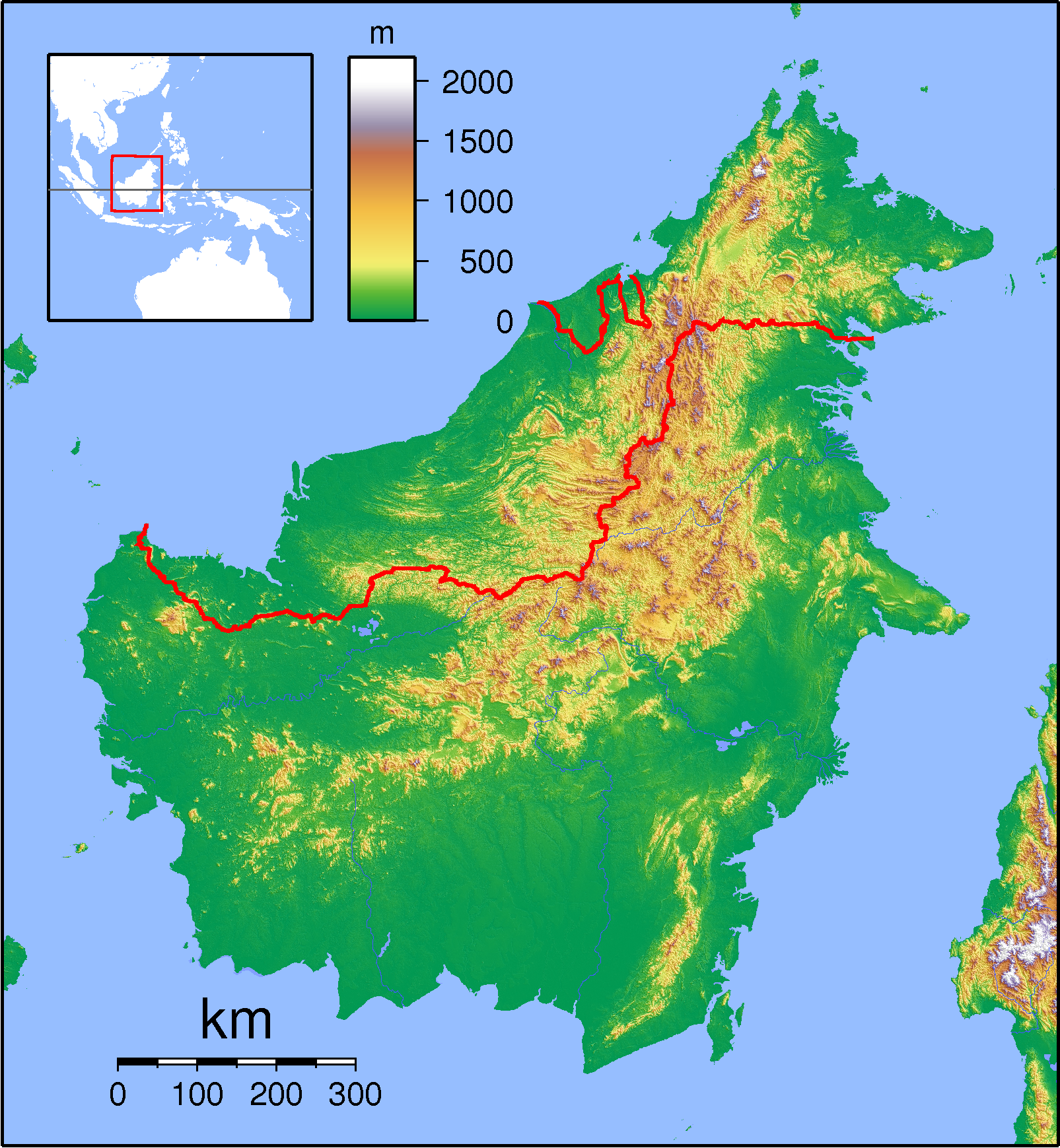 Topographic locator map of Borneo. Created with GMT from public domain SRTM data. For non-locator version, see Image:Borneo Topography.png. Left:108 Bottom:-5 Right:120 Top:8